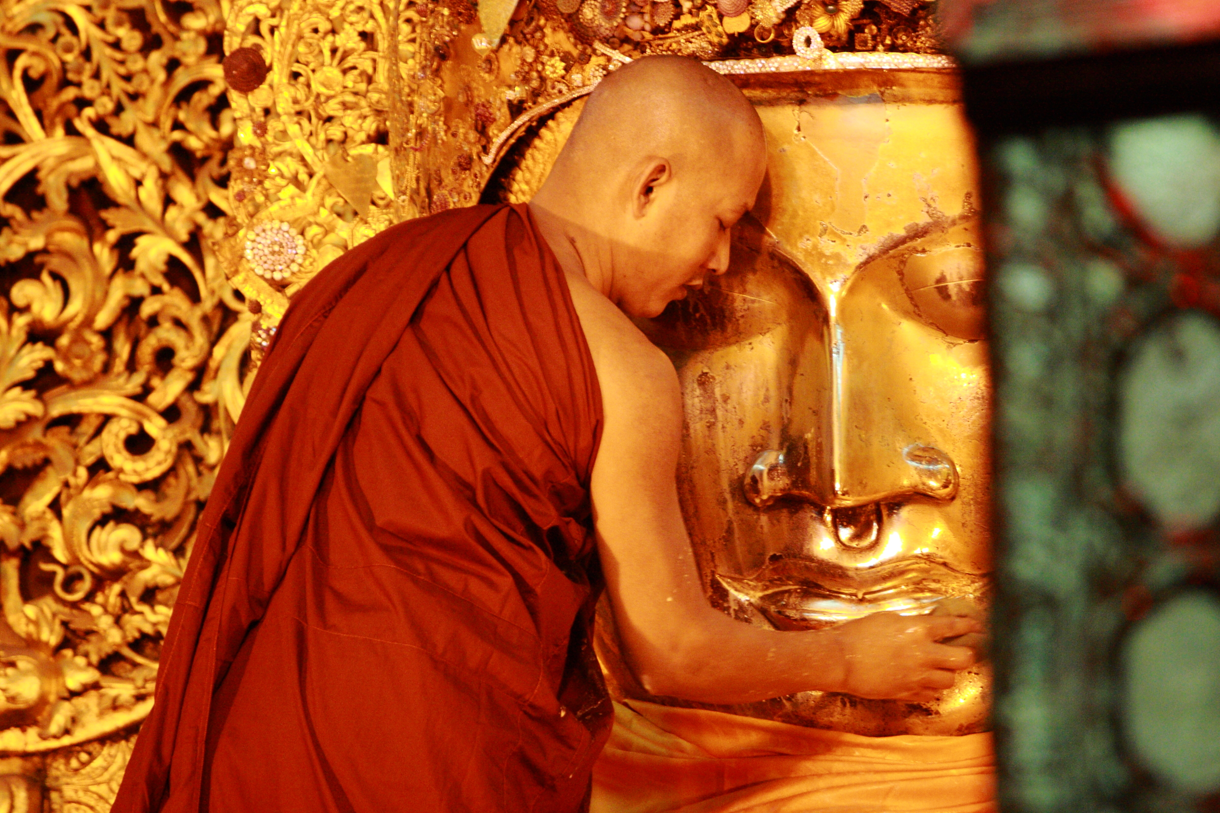 Only the male devotees are permitted to apply gold leaf on the IMAGE. For female worshippers, the donation is carried out by pagoda officials on their behalf.